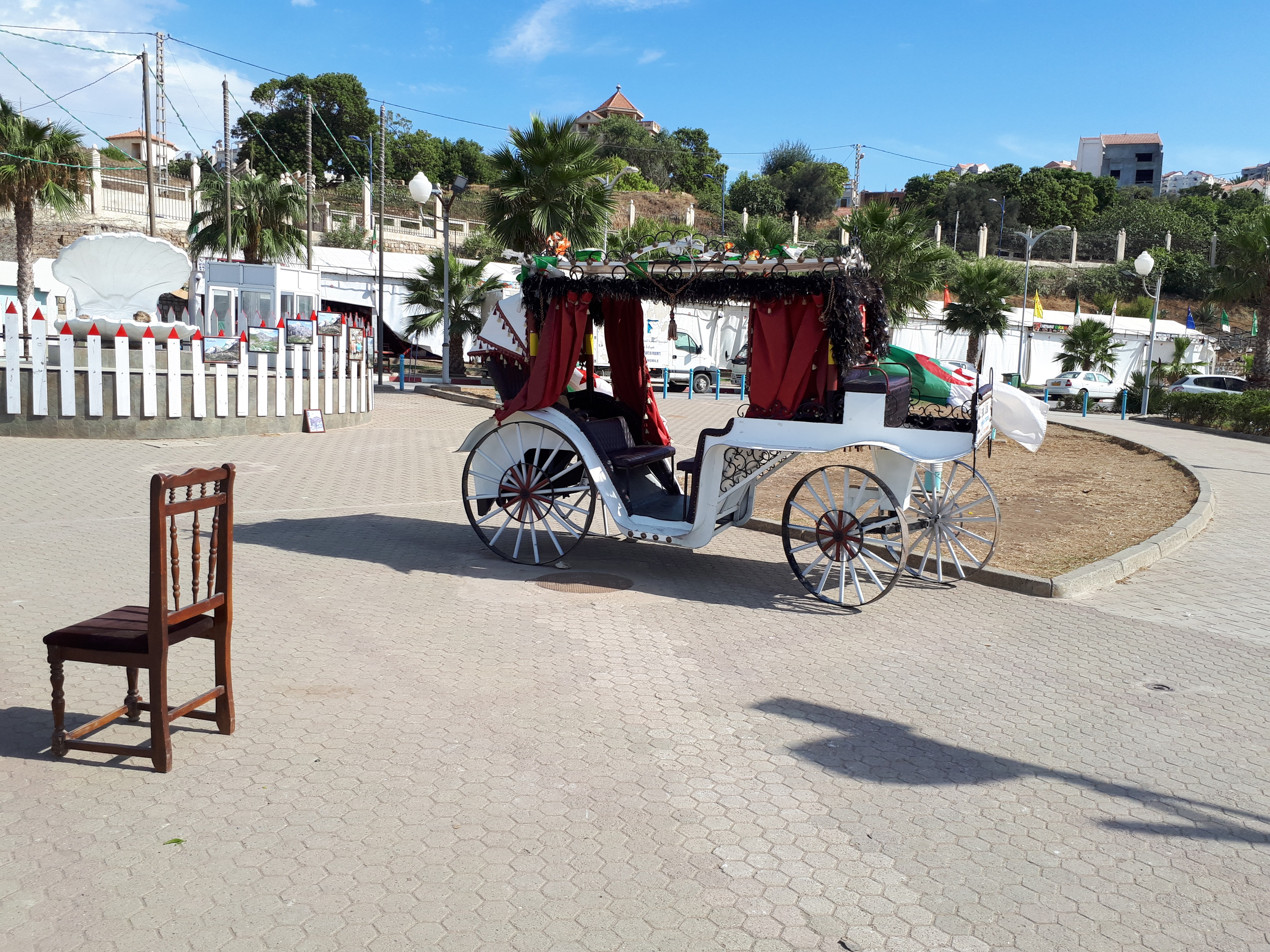 Taqbaylit: wagui le port n'tigzirt This is an image of "African people at work" from Algeria